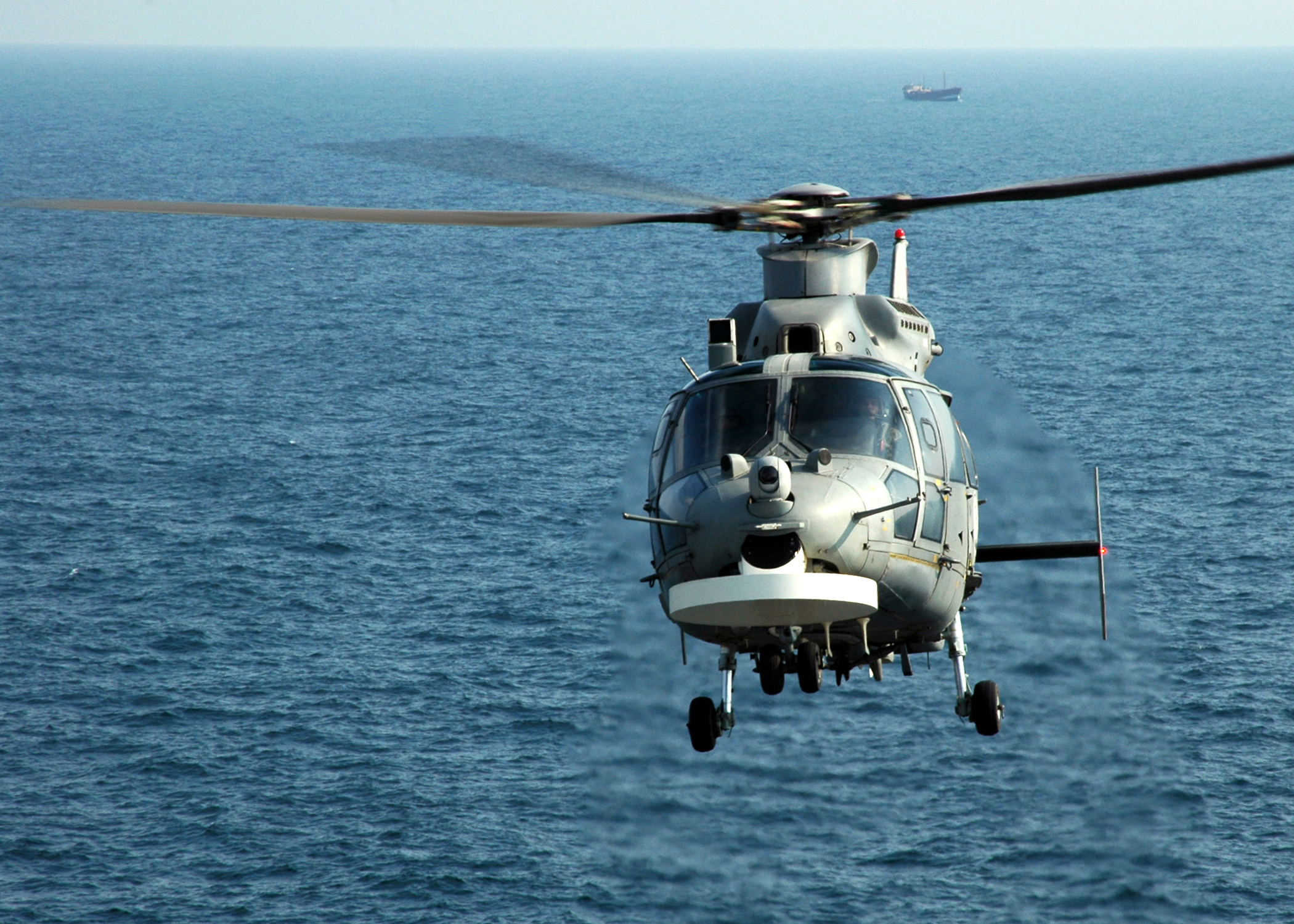 PERSIAN GULF (Nov. 16, 2008) An AS-565MB Panther conducts deck landing qualifications with the multi-purpose amphibious assault ship USS Iwo Jima (LHD 7). Iwo Jima is deployed as part of the Iwo Jima Expeditionary Strike Group supporting maritime security operations in the U.S. 5th Fleet area of responsibility. (U.S. Navy photo by Mass Communication Specialist Seaman Chad R. Erdmann (Released)